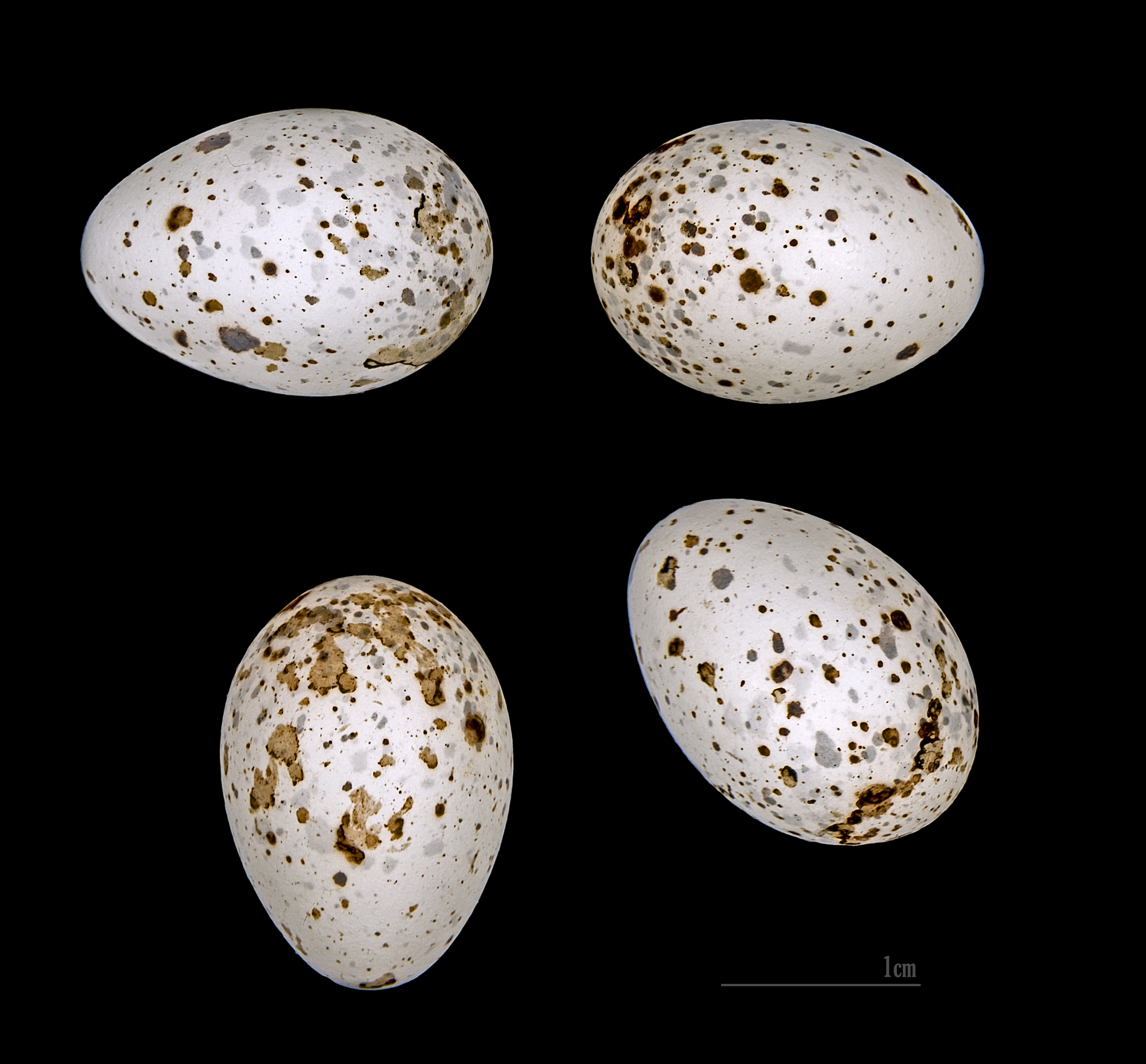 Egg of Orphean Warbler. Collection of Jacques Perrin de Brichambaut.